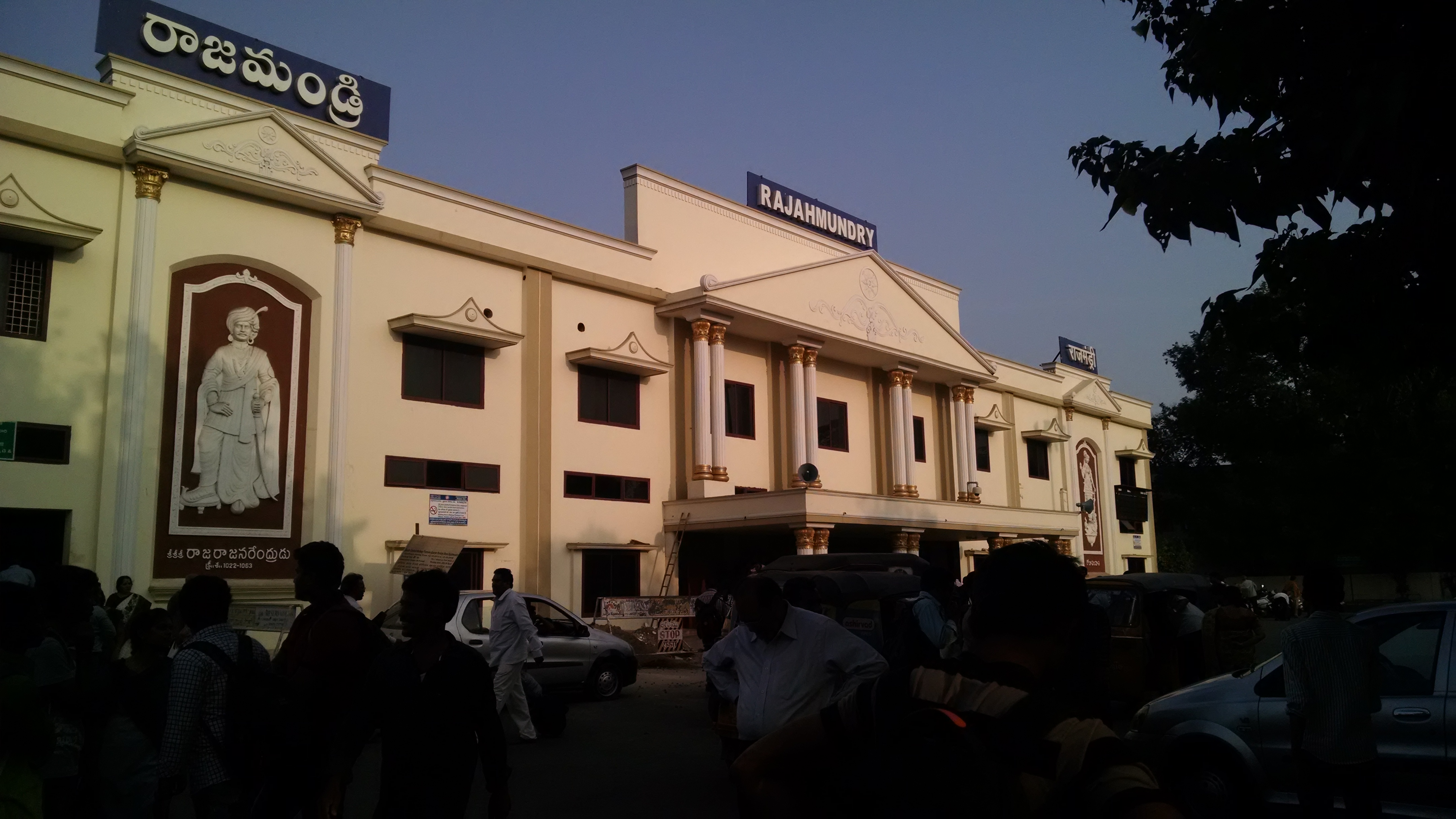 Rajahmundry Railway Station front view